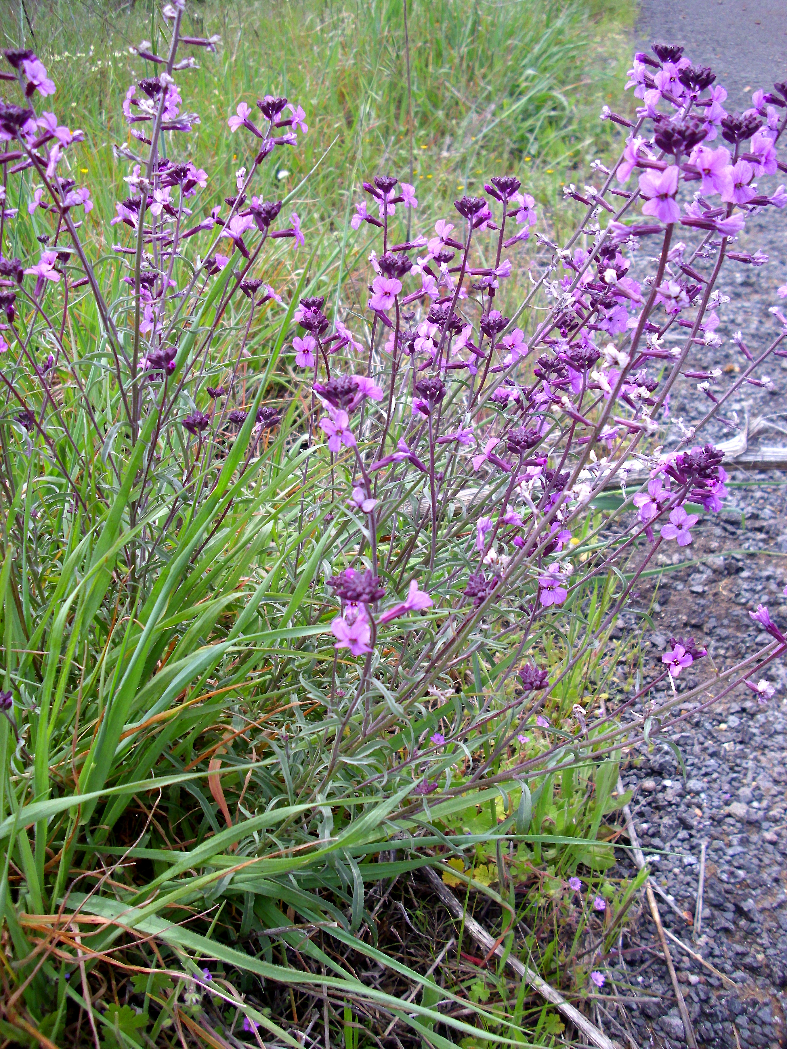 Erysimum favargeri habit, Cañada de Calatrava, Campo de Calatrava, Spain